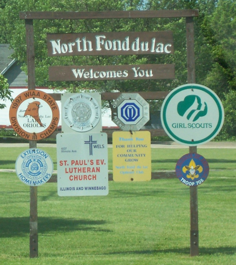 The road sign marking North Fond du Lac, Wisconsin(USA).